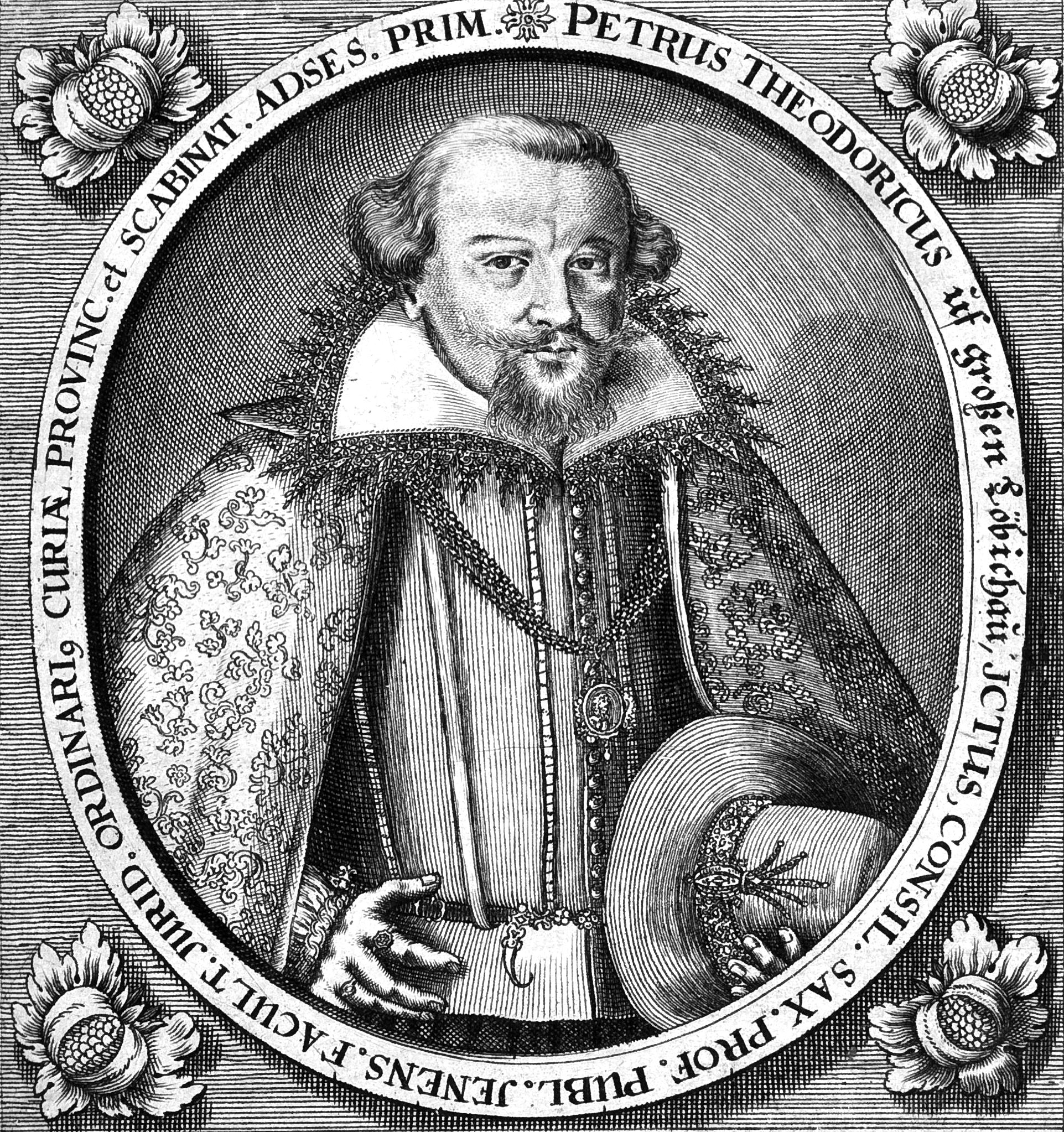 Peter Theodoricus also: Dietrich, Thiederich (1580-1640) german legal Scholar